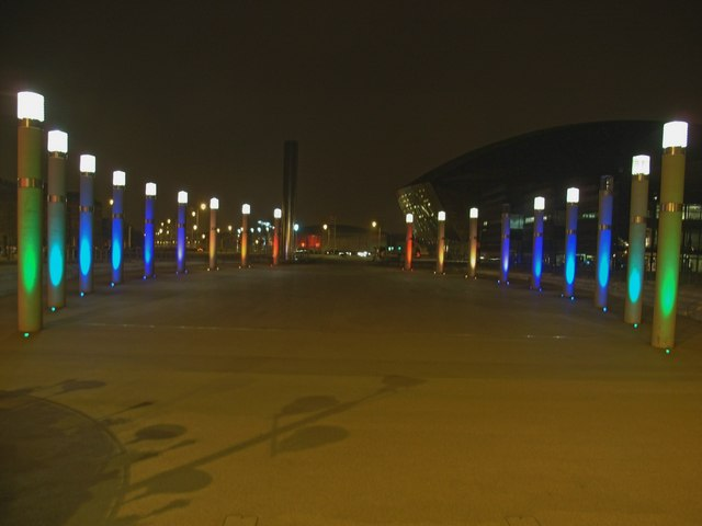 Roald Dahl Plas Illuminated columns in Roald Dahl Plas, looking towards the Wales Millennium Centre.